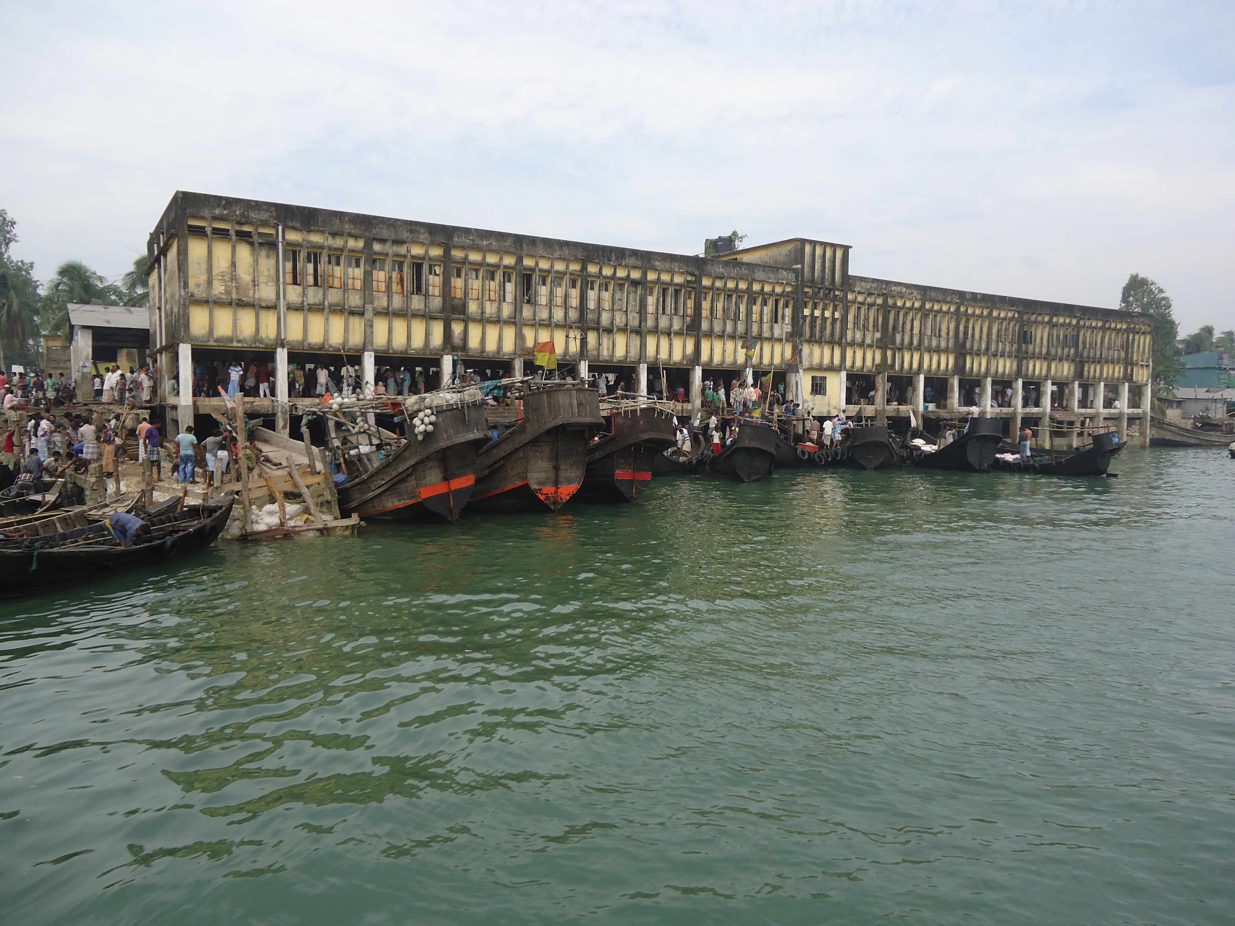 fish market in cox's bazar